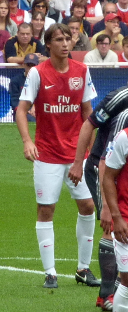 Spanish football player Ignasi Miquel while playing for Arsenal FC against Liverpool FC